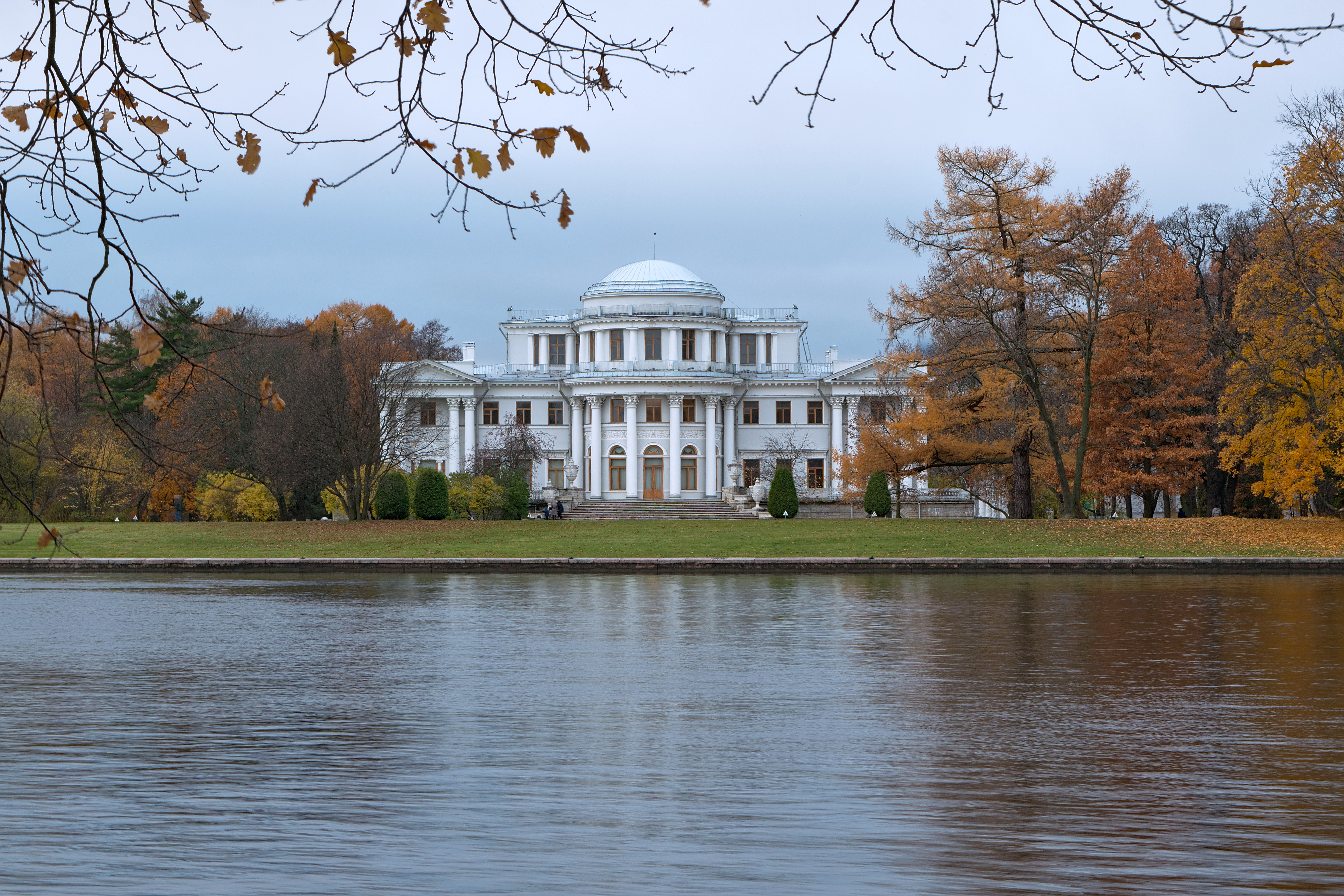 Yelagin Palace, view from Kamenny Island. Saint Petersburg, Russia